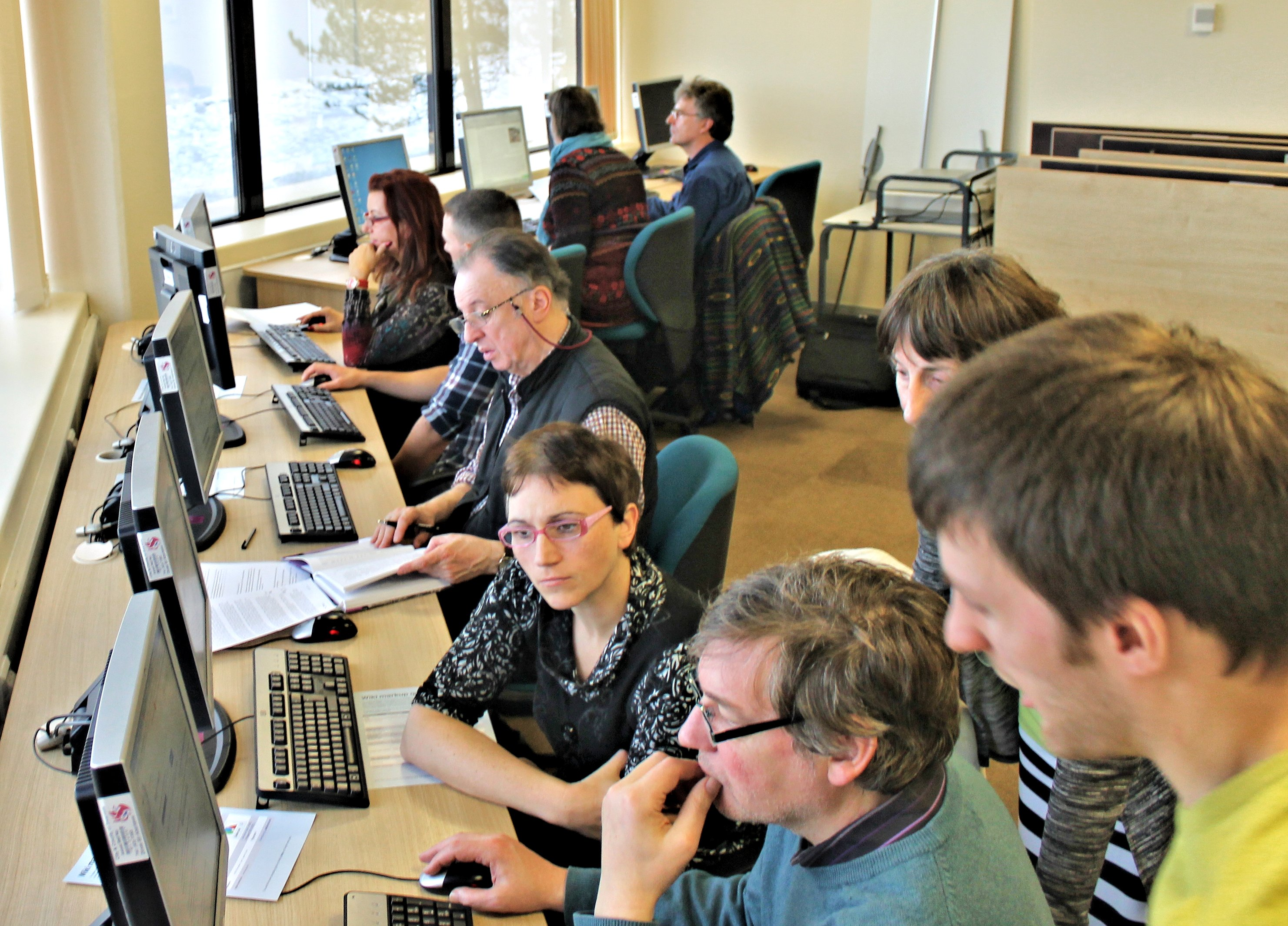 The Swansea Library Editathon, 21 January 2014. Swansea, Wales.